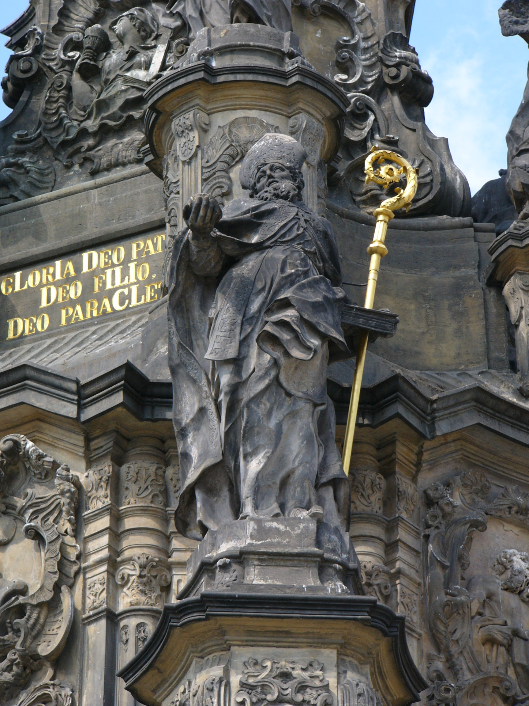 Statue of Saint Cyril on the Holy Trinity Column in Olomouc in Olomouc (Czech Republic).